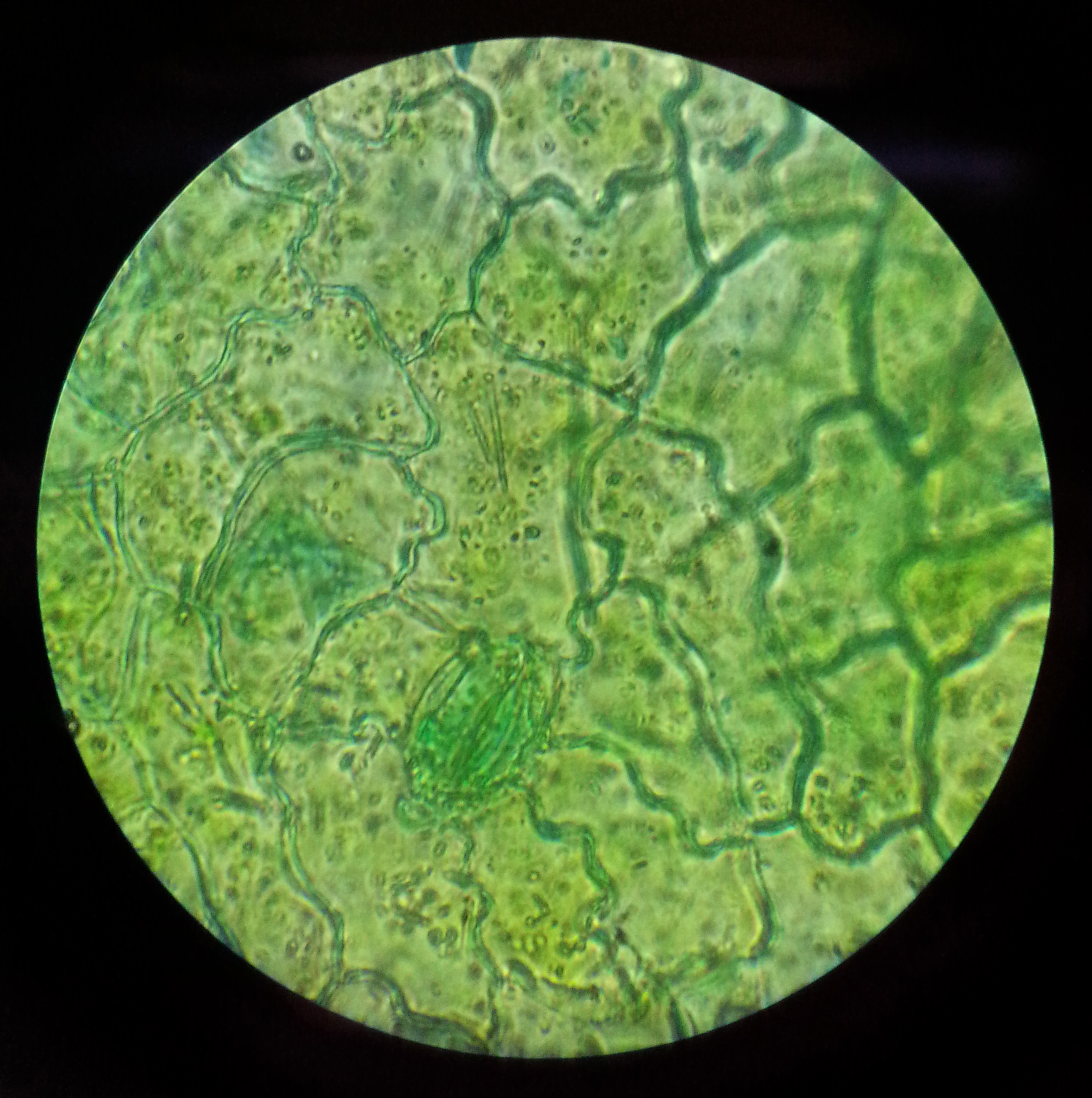 Phytolacca view to the microscope at 400x